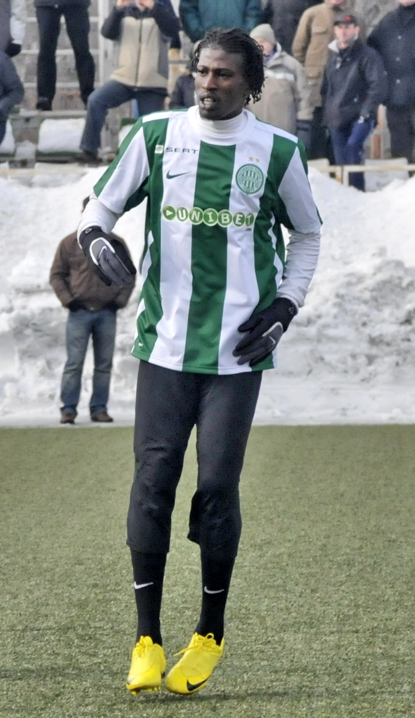 Rafe Wolfe, Jamaican association football player.